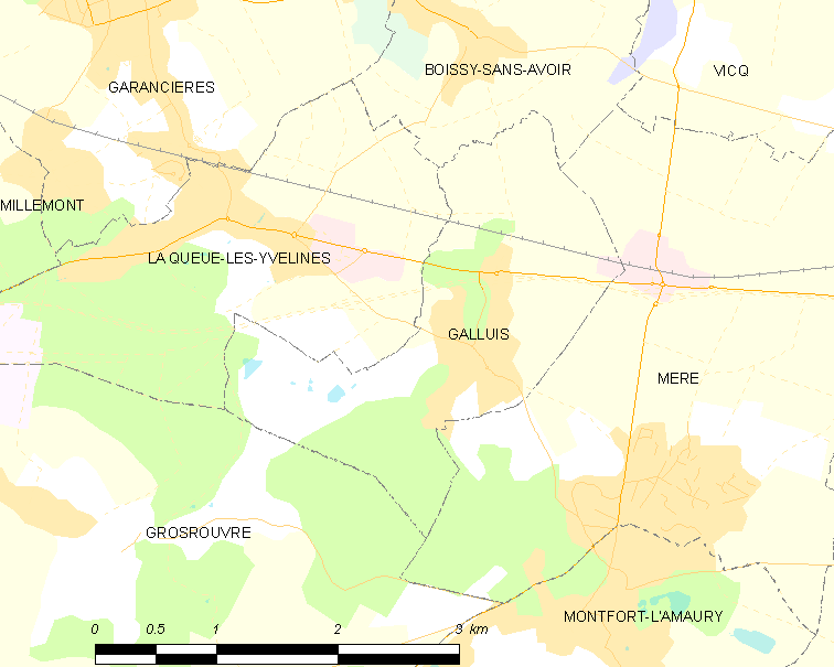 Map of French municipality Galluis